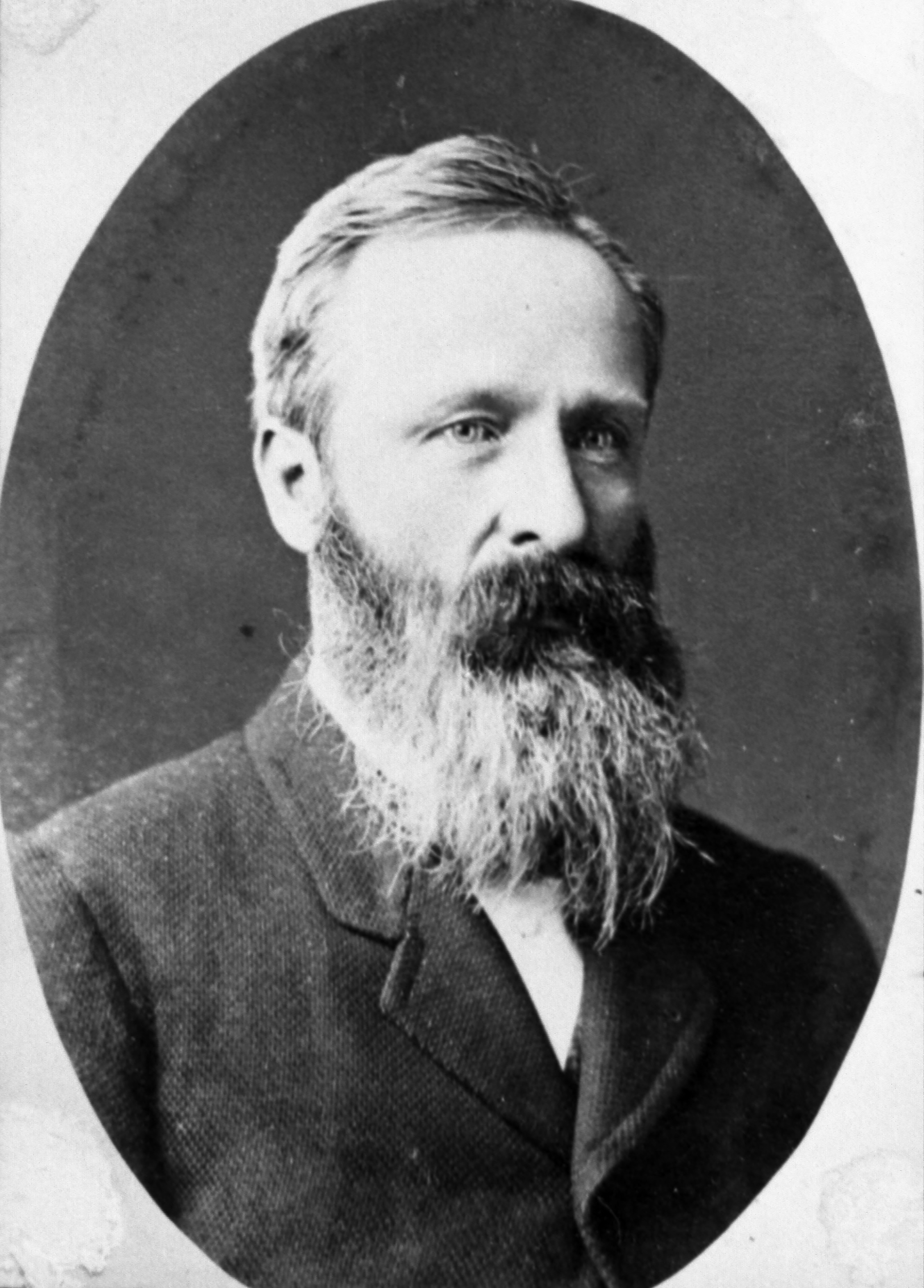 Head and shoulders portrait of William Sefton Moorhouse.